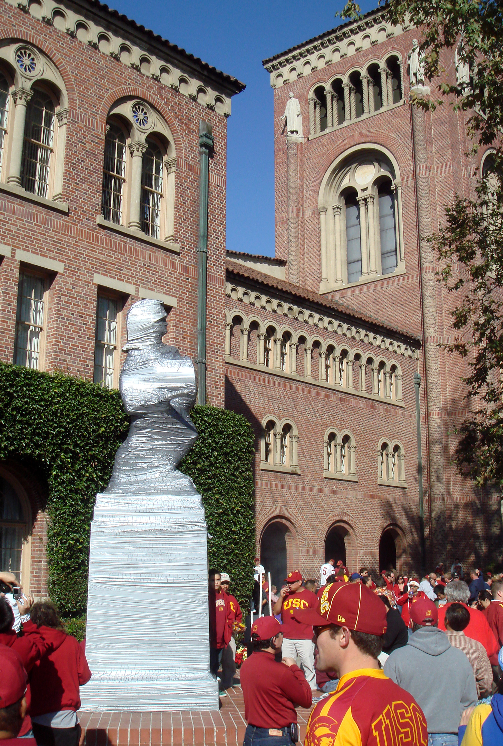 Fans congregate around the Trojan Shrine (aka "Tommy Trojan") on the campus of the University of Southern California before the annual UCLA game. The statue is wrapped in duct tape to protect it from vandalism during the rivalry week. Later the UCLA Bruins would meet the USC Trojans at the L.A. Coliseum; USC would win, 24-7.